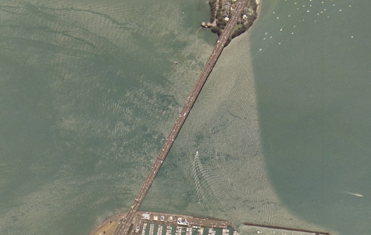 Auckland Harbour Bridge as seen from NASA's World Wind browser